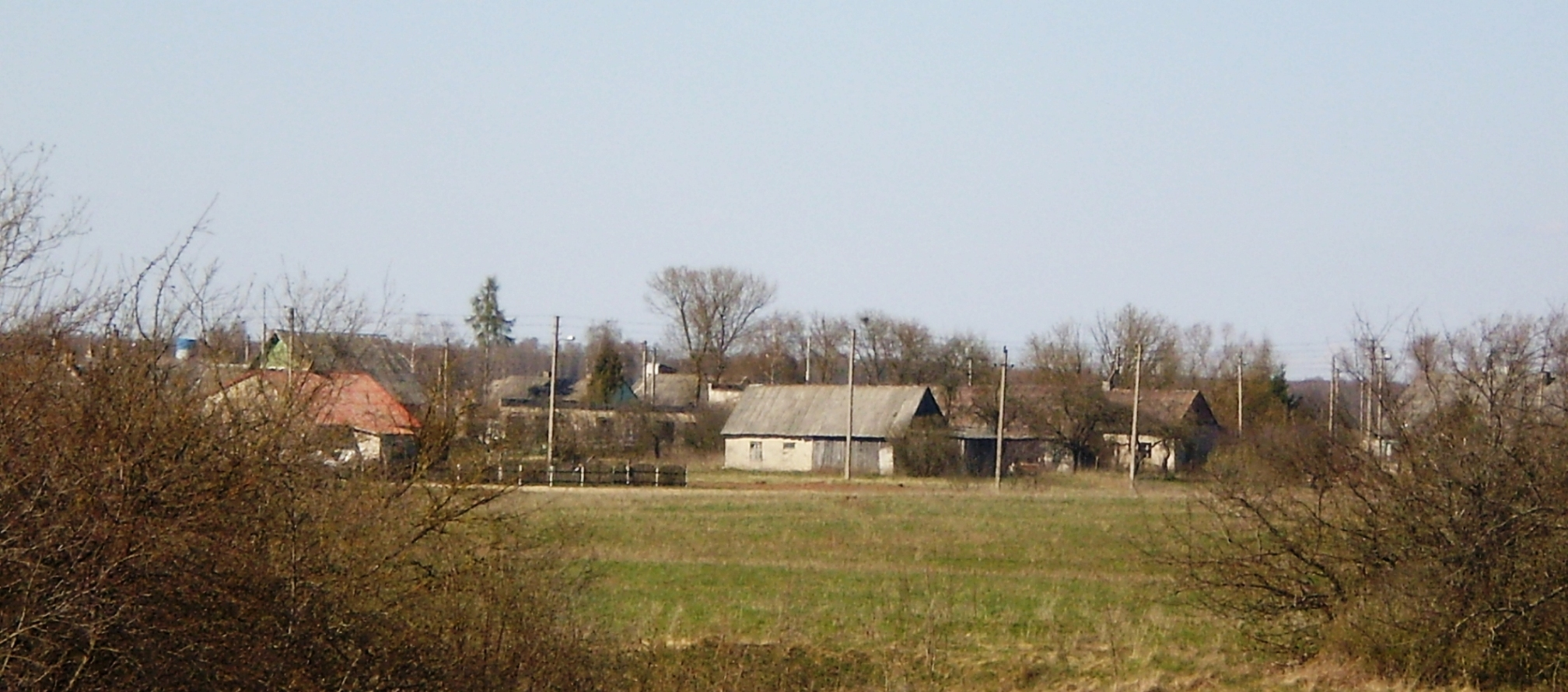 Sangailai, Kėdainiai dst., Lithuania